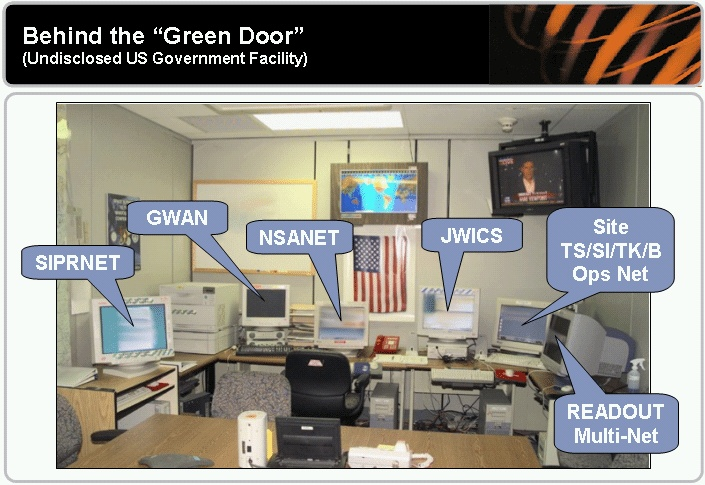 Depiction of a compartmented "Behind the Green Door" US secure communications center